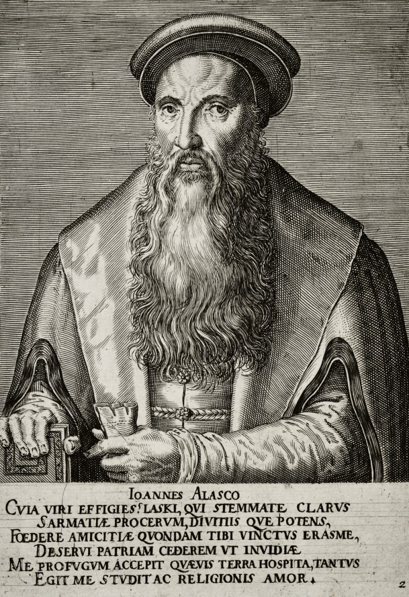 Johannes a Lasco - Polish Reformed reformer